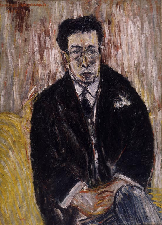 Portrait of Kishida Kunio